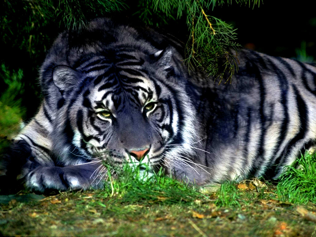 Although there haven't been any verifiable claims to the existence of the Maltese tiger, this artist's rendition shows what one could look like.